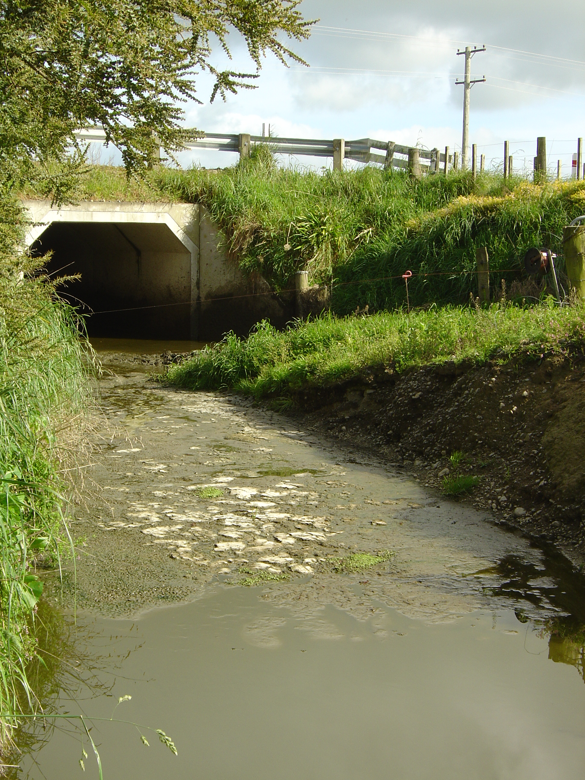 Water pollution due to dairy farming in the Wairarapa in New Zealand. Image also shows a cattle underpass on State Highway 2.